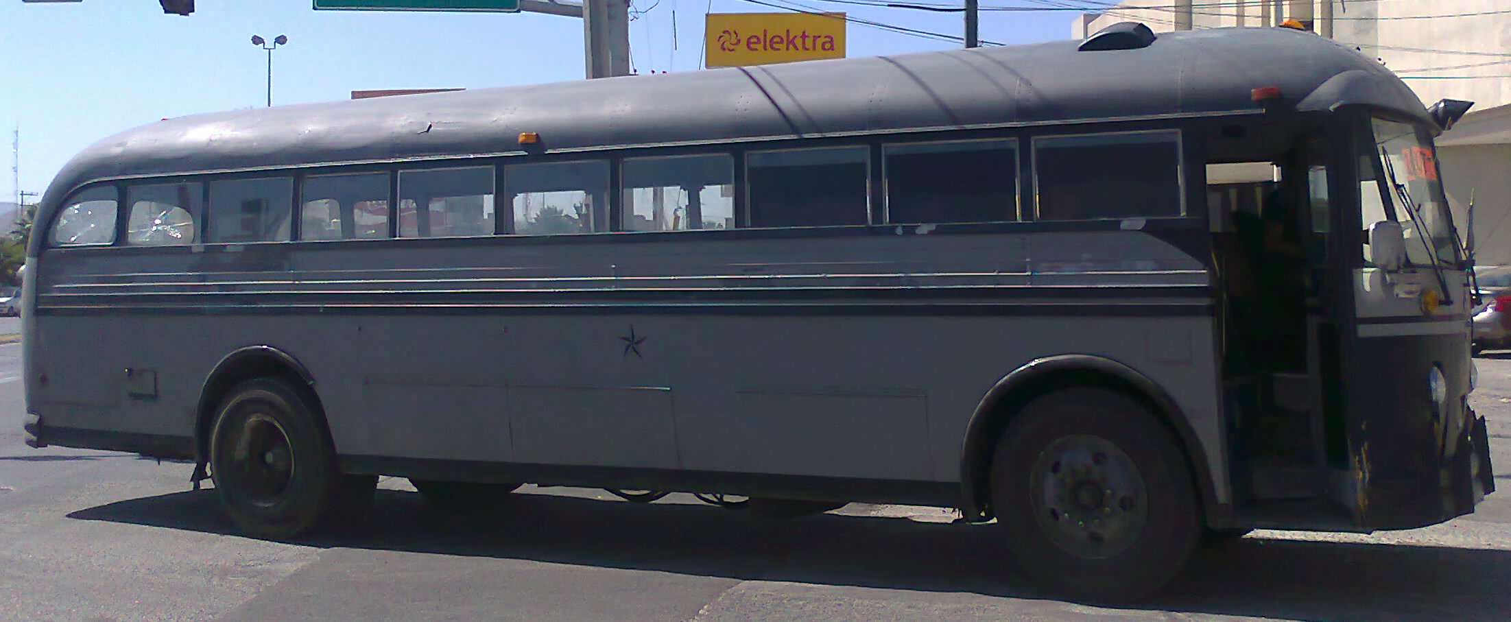 50s bus.